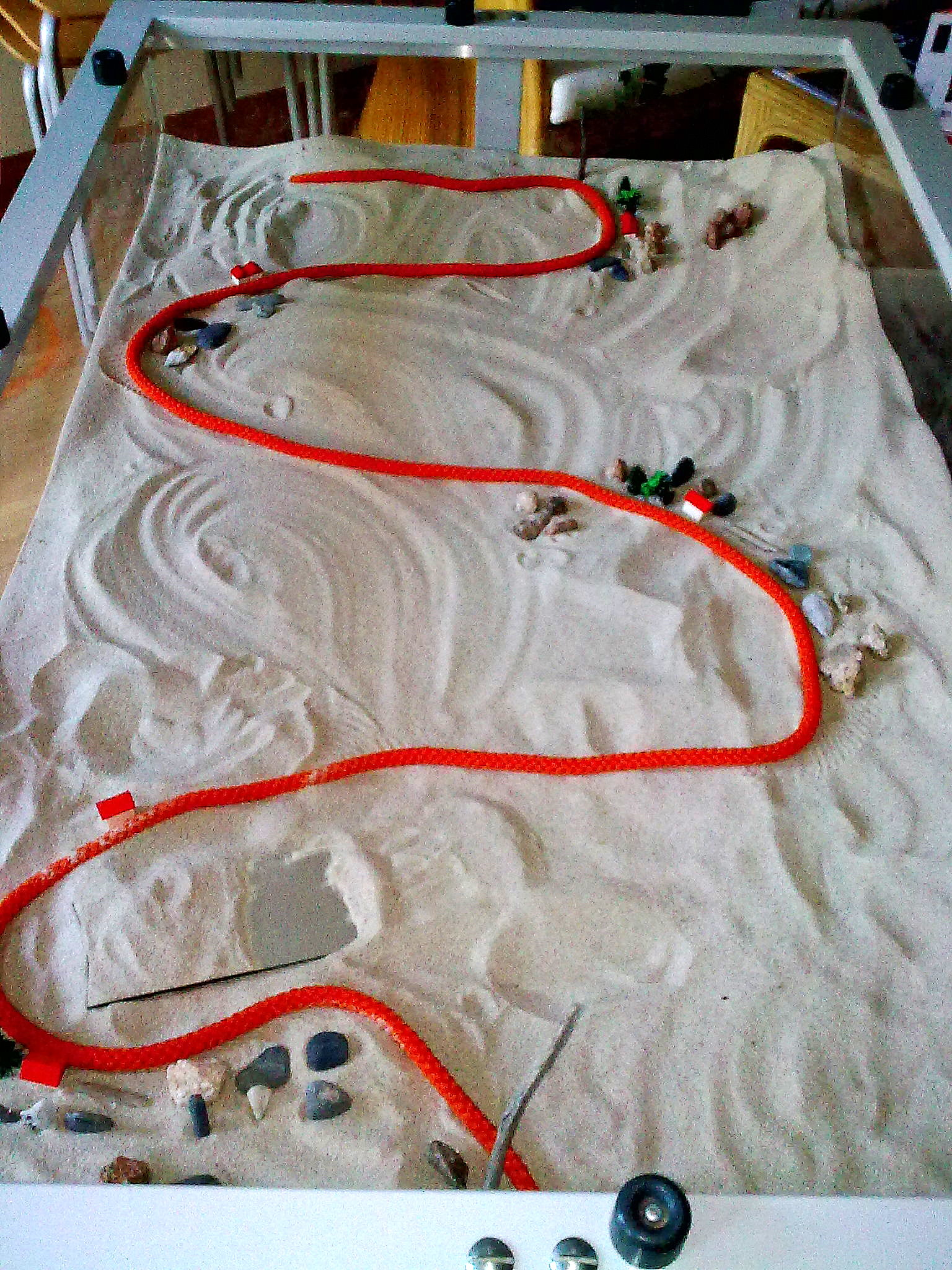 Life path representation of a child in a sand play (from now on to my own death)